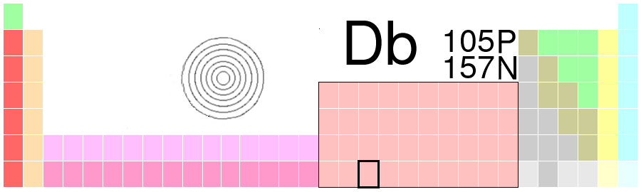 source: image produite pour Wikipédia par leurs auteurs auteurs: Daniel Mayer (Maveric149) and/or Arnaud Gaillard (Greatpatton) licence